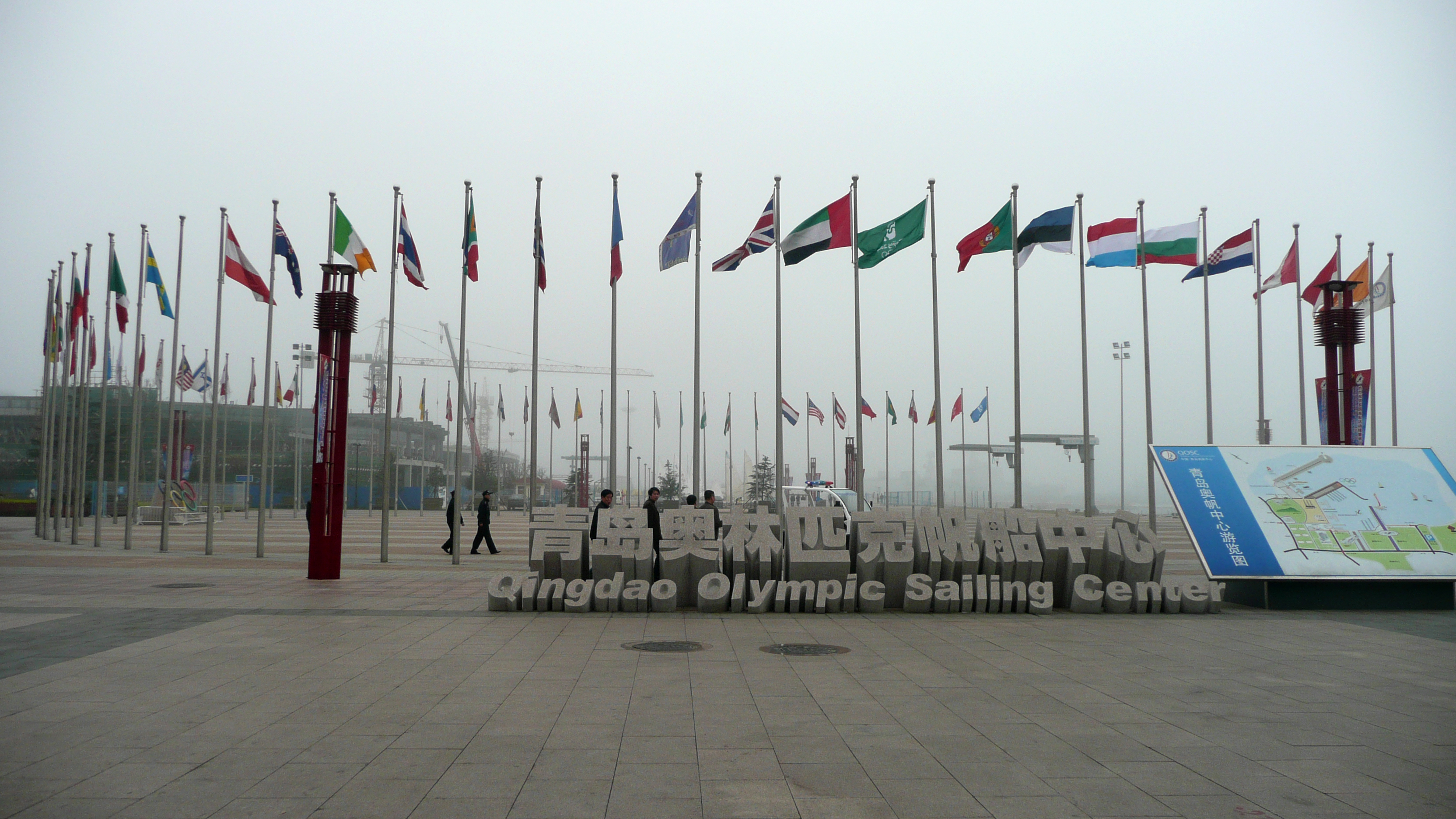 Qingdao Olympic Sailing Center